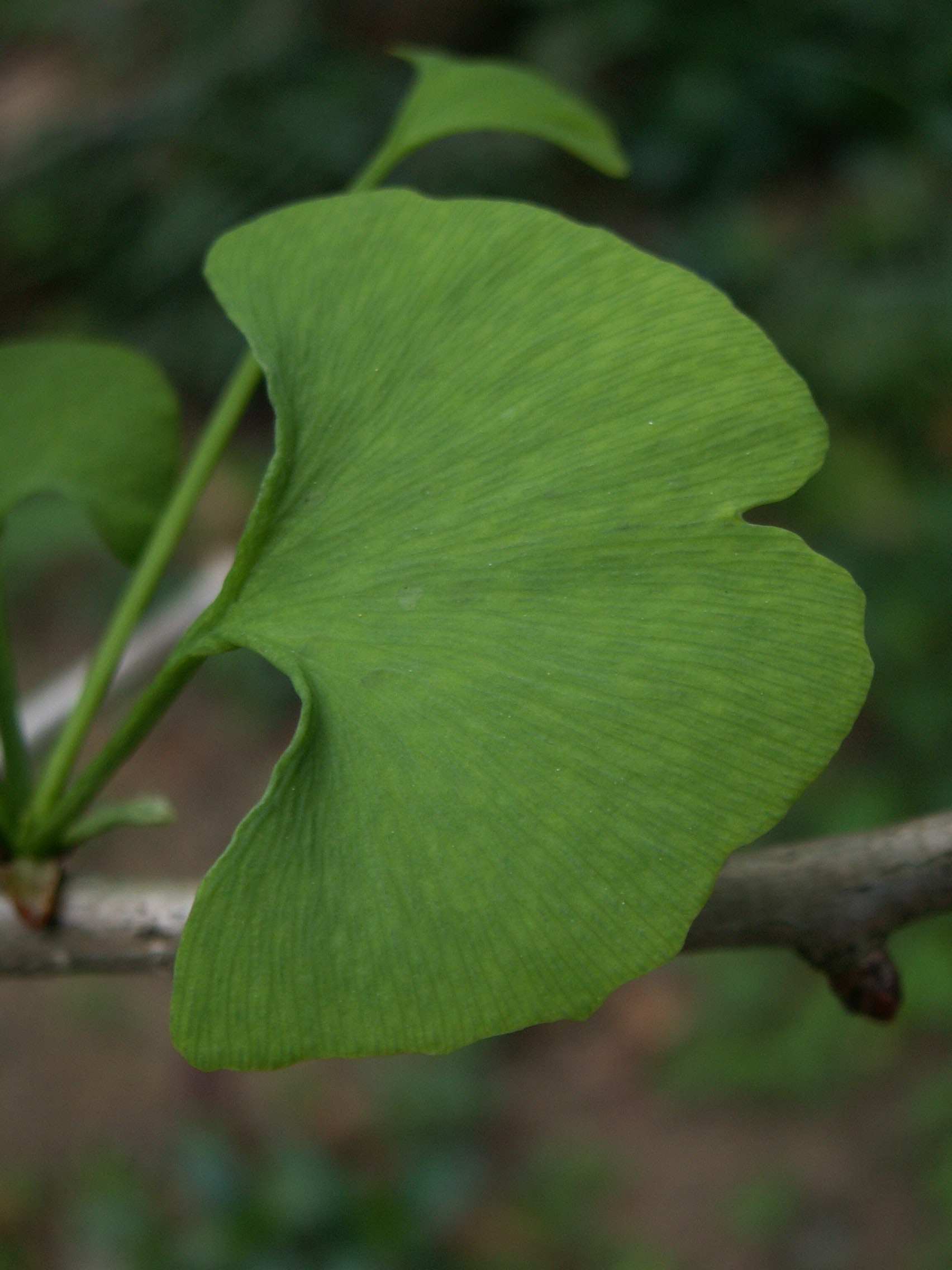 A close-up of a leaf of a Maidenhair tree. Photo taken on 29 March 2006 by Lorenzarius. 中文名: 白果 Common name: Maidenhair tree Scientific name: Ginkgo biloba L.